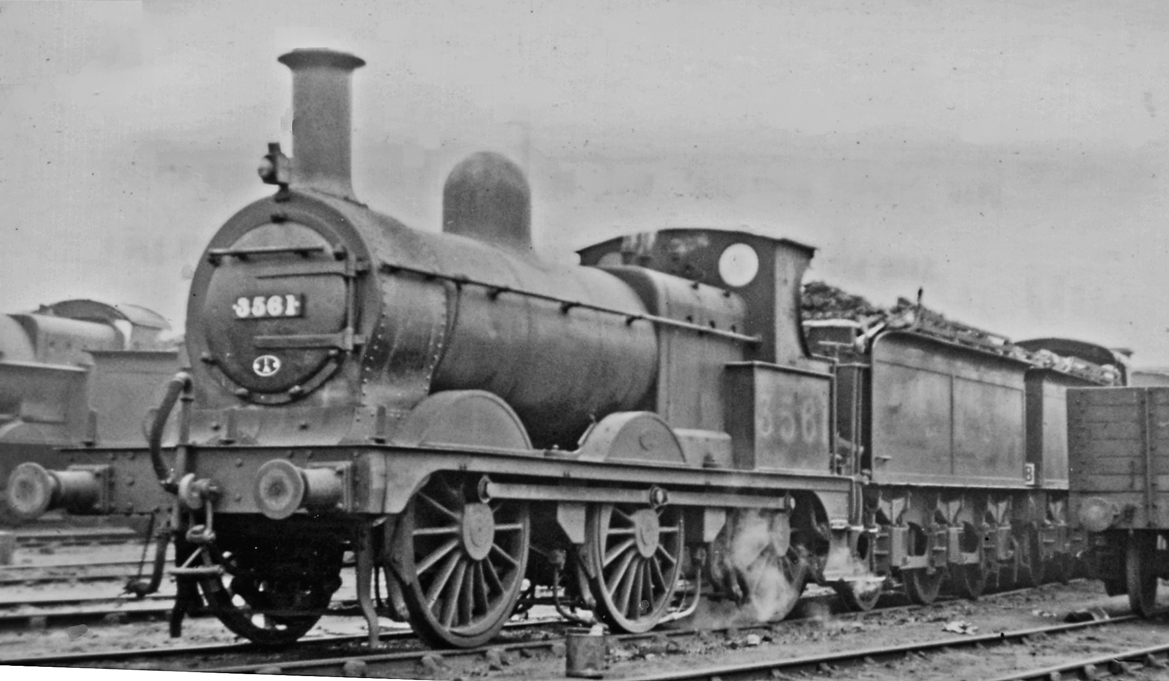 Ex-Midland 2F 0-6-0 at Willesden Locomotive Depot. This pre-Nationalisation view in the great ex-LNW Depot near Willesden Junction, shows one of the bevy of Johnson/Deeley 5'3" 2F 0-6-0s currently employed on empty coaching stock (e.c.s.) working to/from Euston. No. 3561 subsequently became BR No. 58290 and was withdrawn in 10/54 - after a life of about 70 years.